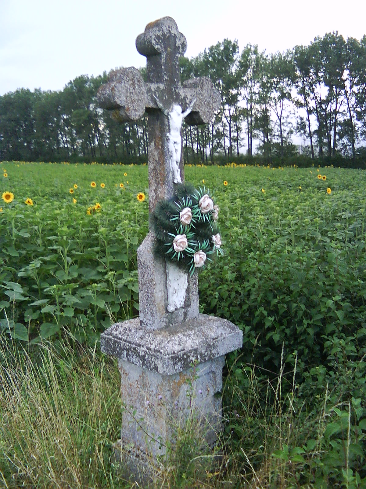 Stone cross near main road in Albinov, part of town Sečovce